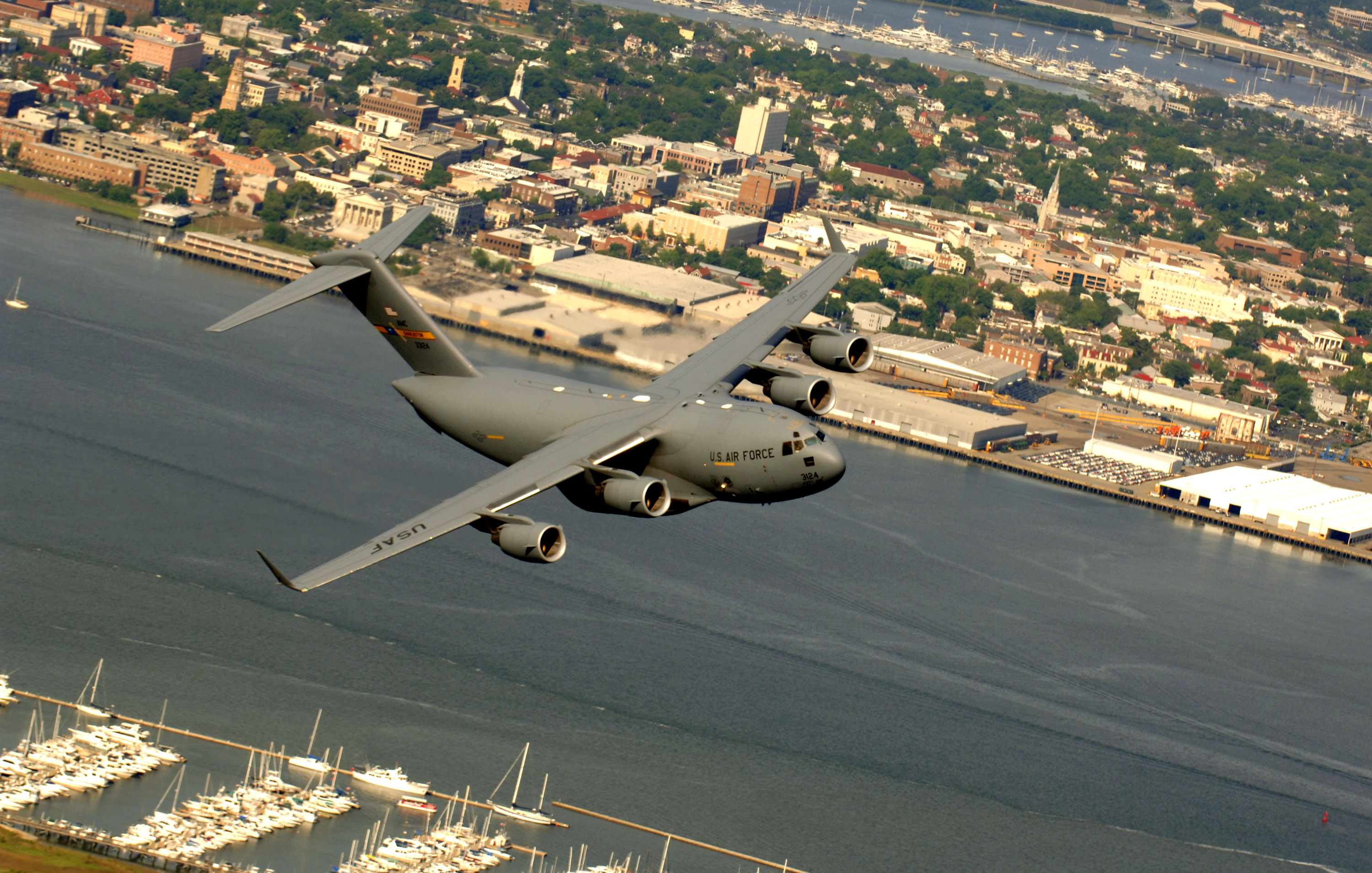 060516-F-9712C-111: C-17s over Charleston: A C-17 Globemaster III from the 14th Airlift Squadron, Charleston Air Force Base, S.C., flies over downtown Charleston, S.C., during a training mission on Tuesday, May 16, 2006.